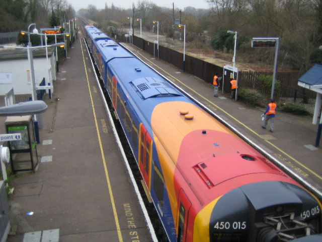 450015 at Wraysbury railway station